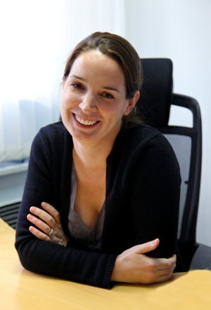 Maelle Gavet in 2010